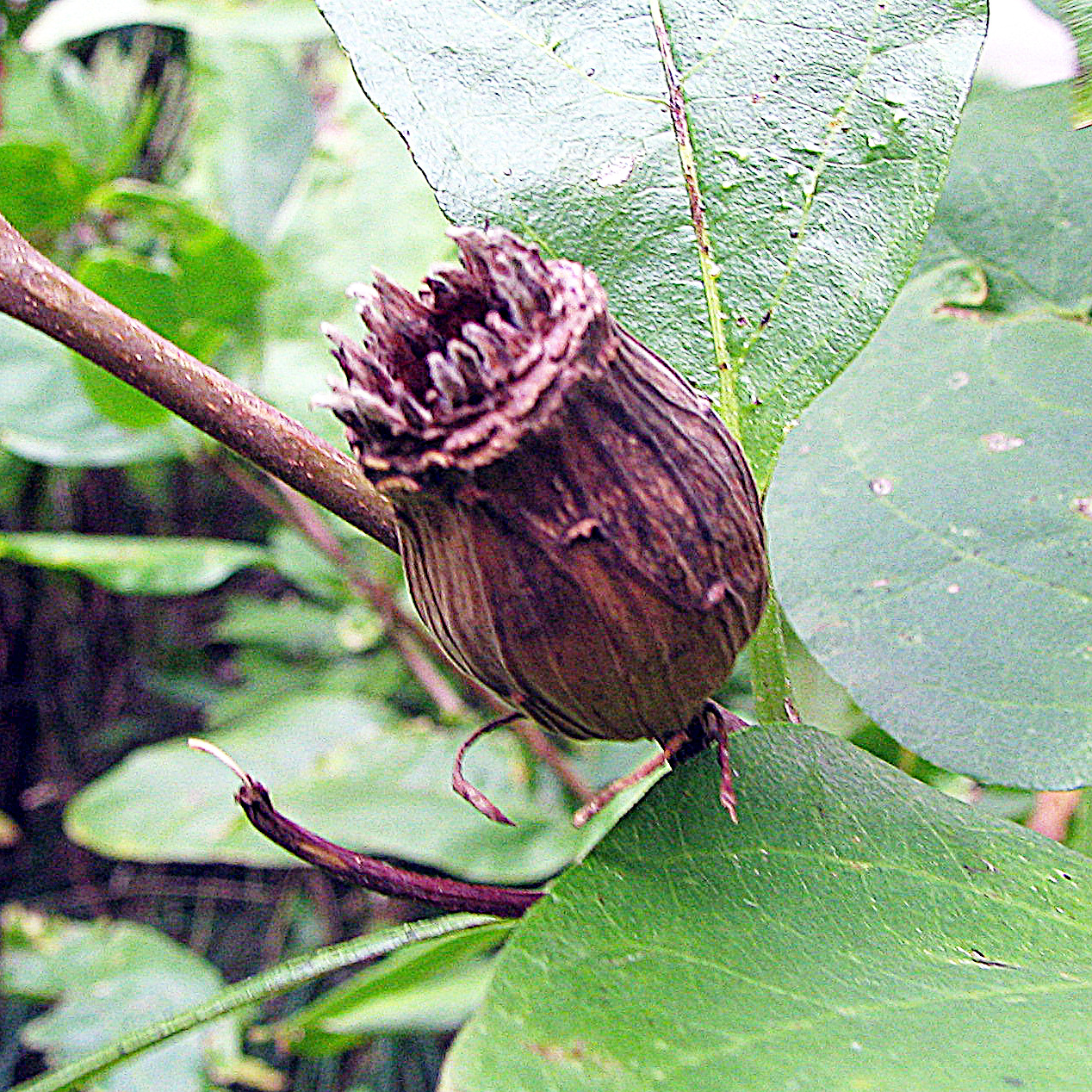 Calycanthus floridus hypanthium